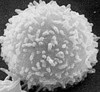 A three-dimensional ultrastructural image analysis of a T-lymphocyte using a Hitachi S-570 scanning electron microscope (SEM) equipped with a GW Backscatter Detector.